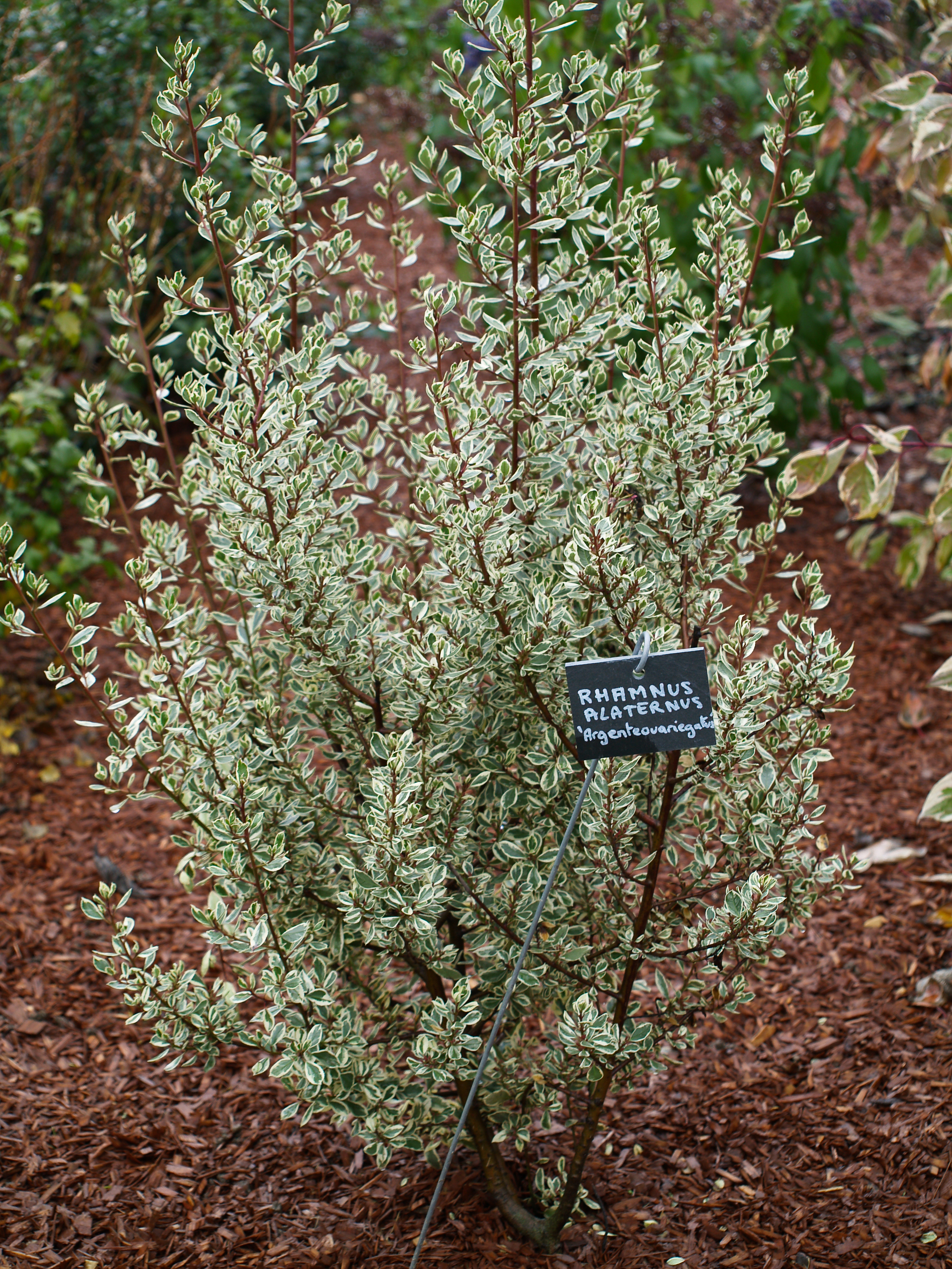 Variegated Italian buckthorn (Villandry Castle gardens, France)